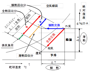 Sensible heat exchanger and total heat exchanger